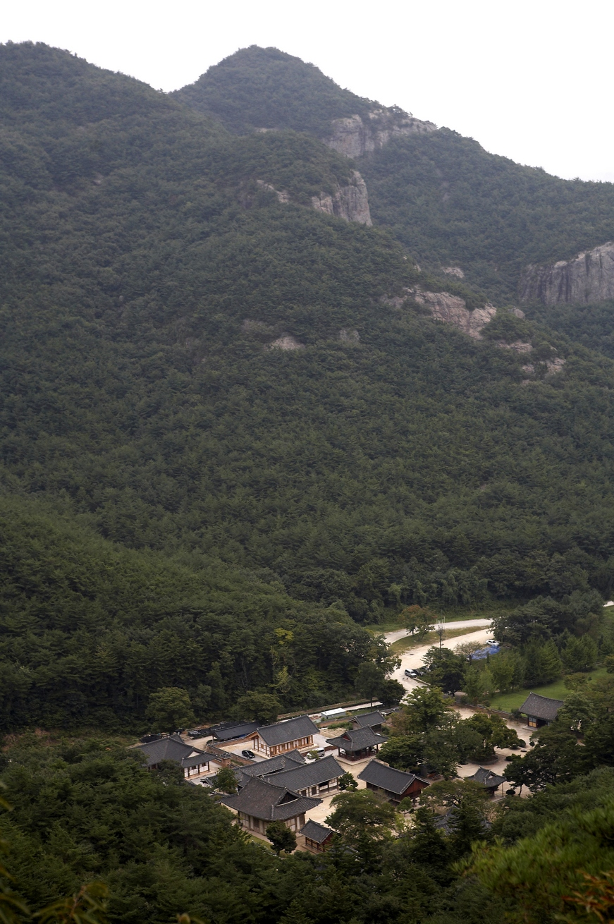 Naeso temple templestay